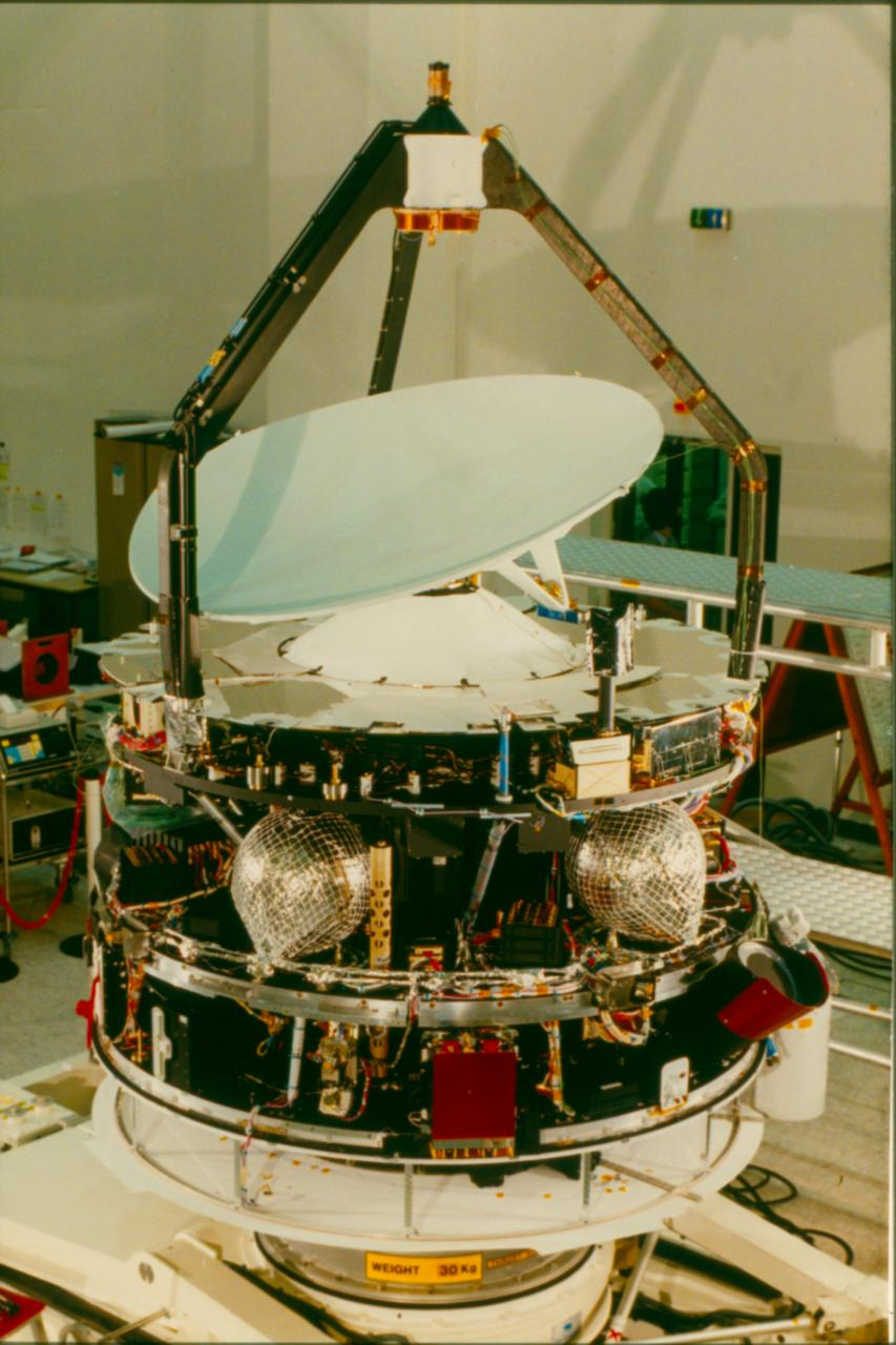 By spacecraft standards, the 960-kg Giotto was quite modest in size. Its main body was a short cylinder, 1.85 m in diameter by about 1.1 m in height. It contained three interior platforms: the top platform (30 cm thick), a main platform (40 cm), and an experiment platform (30 cm). Each of these consisted of a disc within the cylinder, on which were mounted various subsystems and science experiments. On top of the cylinder was a tripod which surrounded a 1.5 m diameter high-gain dish antenna, which gave the spacecraft a total height of 2.85 m. The main rocket motor was positioned in the centre of the cylinder with the nozzle protruding from the bottom. The most difficult problem to overcome was how to ensure that Giotto survived long enough to snap its close-up pictures of the comet nucleus when the spacecraft and the comet were heading towards each other at a combined speed of 245 000 km/hour (equivalent to crossing the Atlantic Ocean in 11 minutes!). At this speed, a 0.1-gram dust particle would be able to penetrate 8 cm of solid aluminium. Since it was out of the question to equip Giotto with a 600-kg aluminium shield, engineers turned to a more subtle, 'sandwich' design first proposed by American astronomer Fred Whipple back in 1947 − long before the beginning of the Space Age. The spacecraft's dust shield consisted of two protective sheets, 23 cm apart. At the front was a sheet of aluminium (1 mm thick), which would vapourise all but the largest of the incoming dust particles. A 12-mm thick sheet of Kevlar at the rear would absorb any debris that pierced the front barrier. Together they could withstand impacts from particles up to 1 gram in mass and travelling 50 times faster than a bullet.